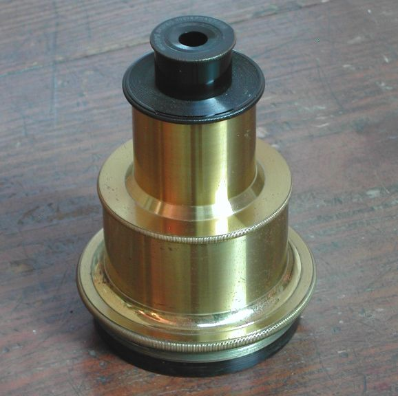 80 mm Huyghens eyepiece of 1 meter Zeiss telescope at Merate Astronomical Observatory, Merate (LC), Italy.